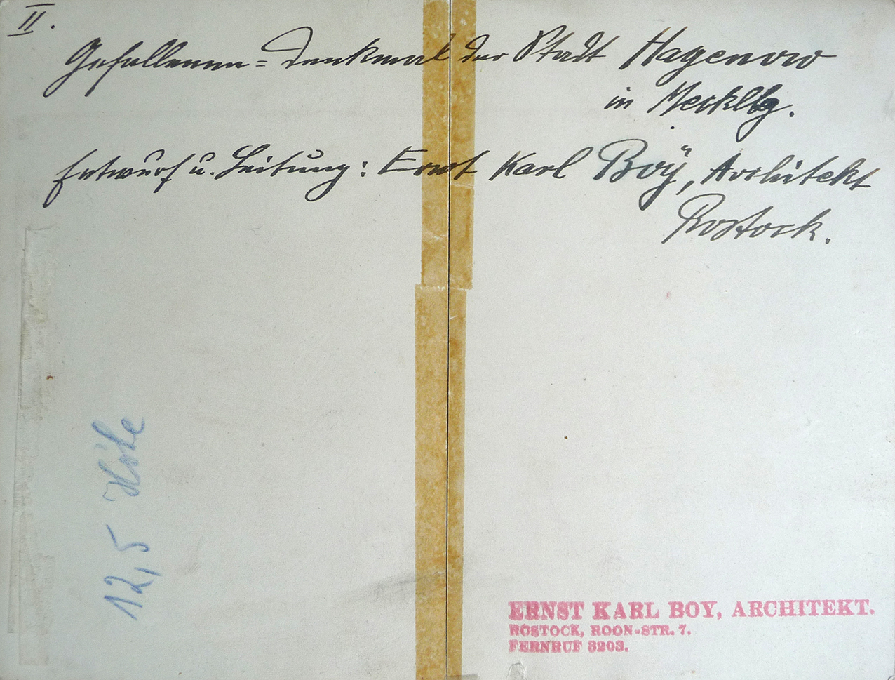 Stamp of the architecture office